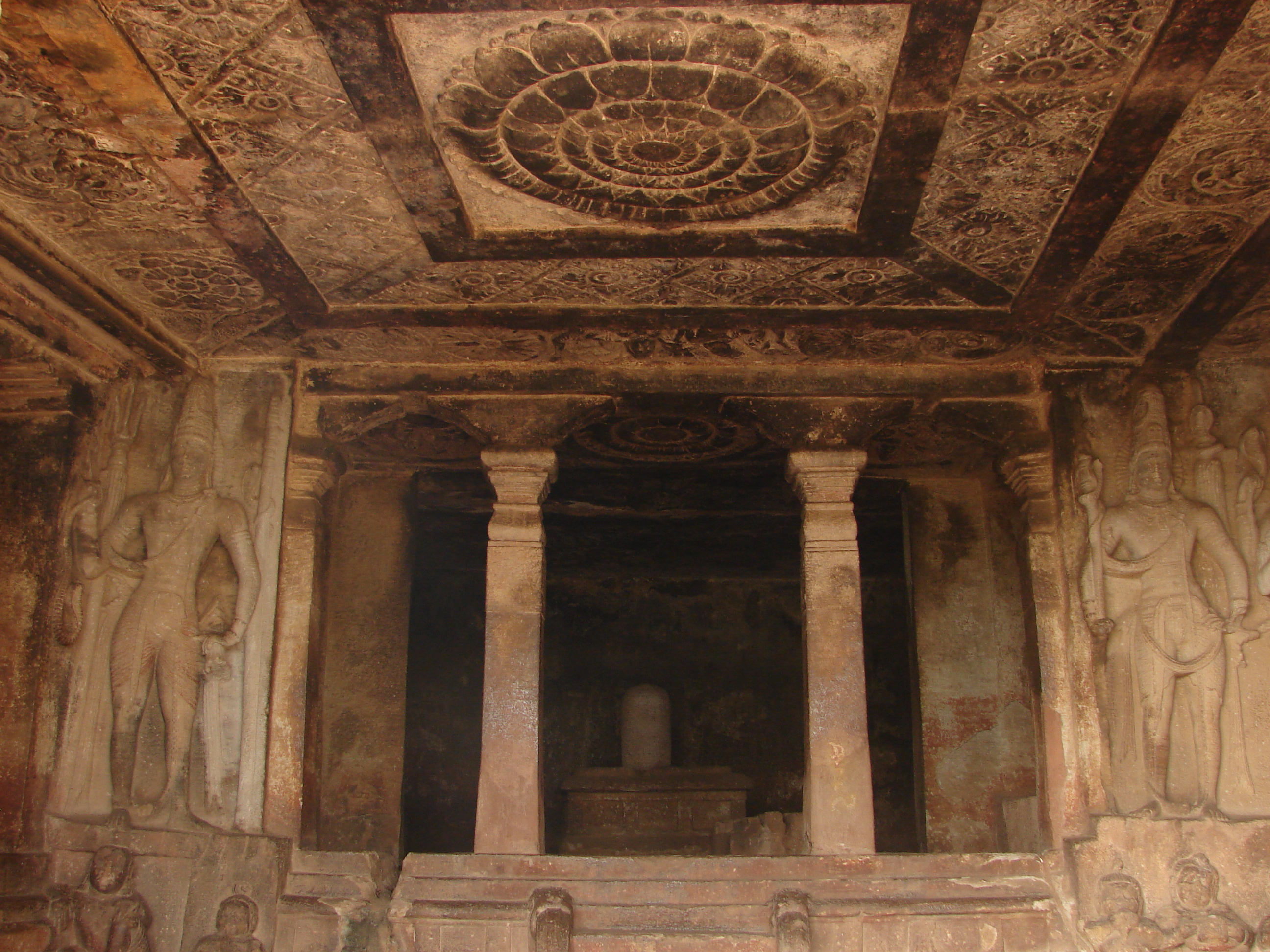 This photograph was taken by me at the Ravalapadi Cave temple in Aihole, Karnataka state, India. The temple was built in the 6th century, during the reign of the the Badami Chalukya dynasty.